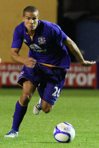 Jack Rodwell of Everton vs Bohemians FC.